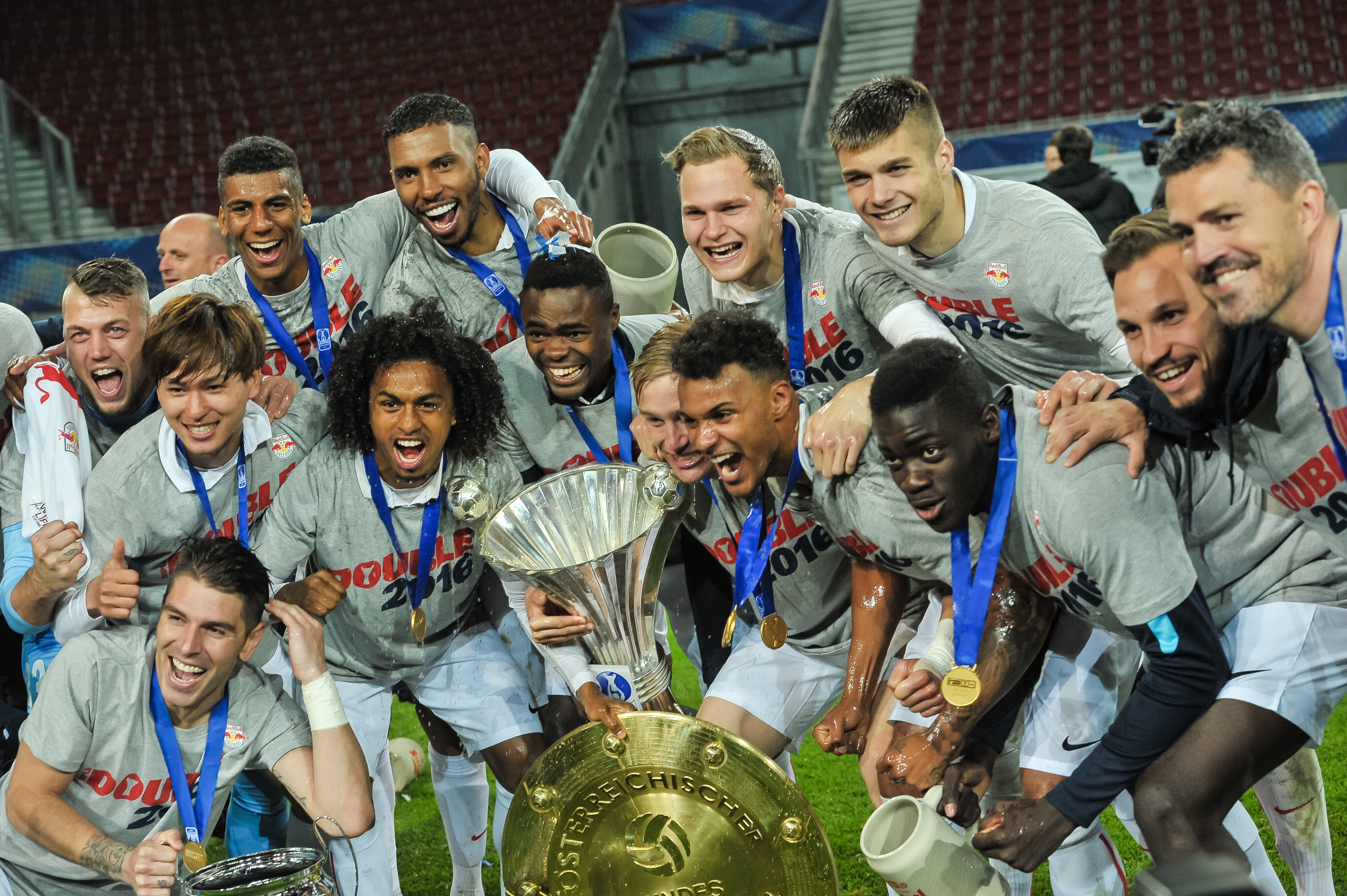 ÖFB Samsung Cup-Finale - FC Admira Wacker Mödling vs FC Red Bull Salzburg am 19. Mai 2016 in Klagenfurt. Bild zeigt den Pokalsieger Red Bull Salzburg.